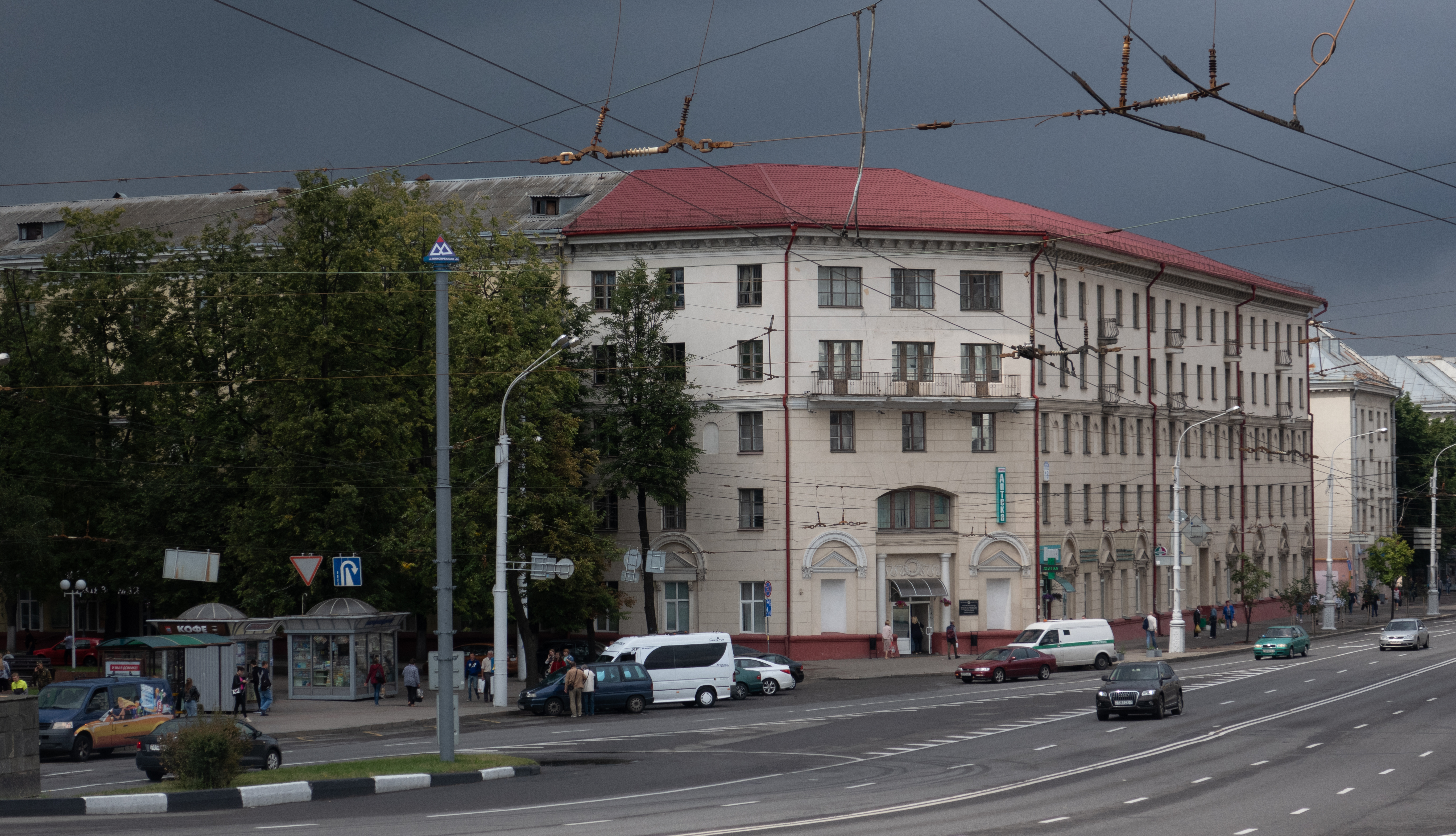 18 Maskoŭskaja street (Minsk, Belarus)